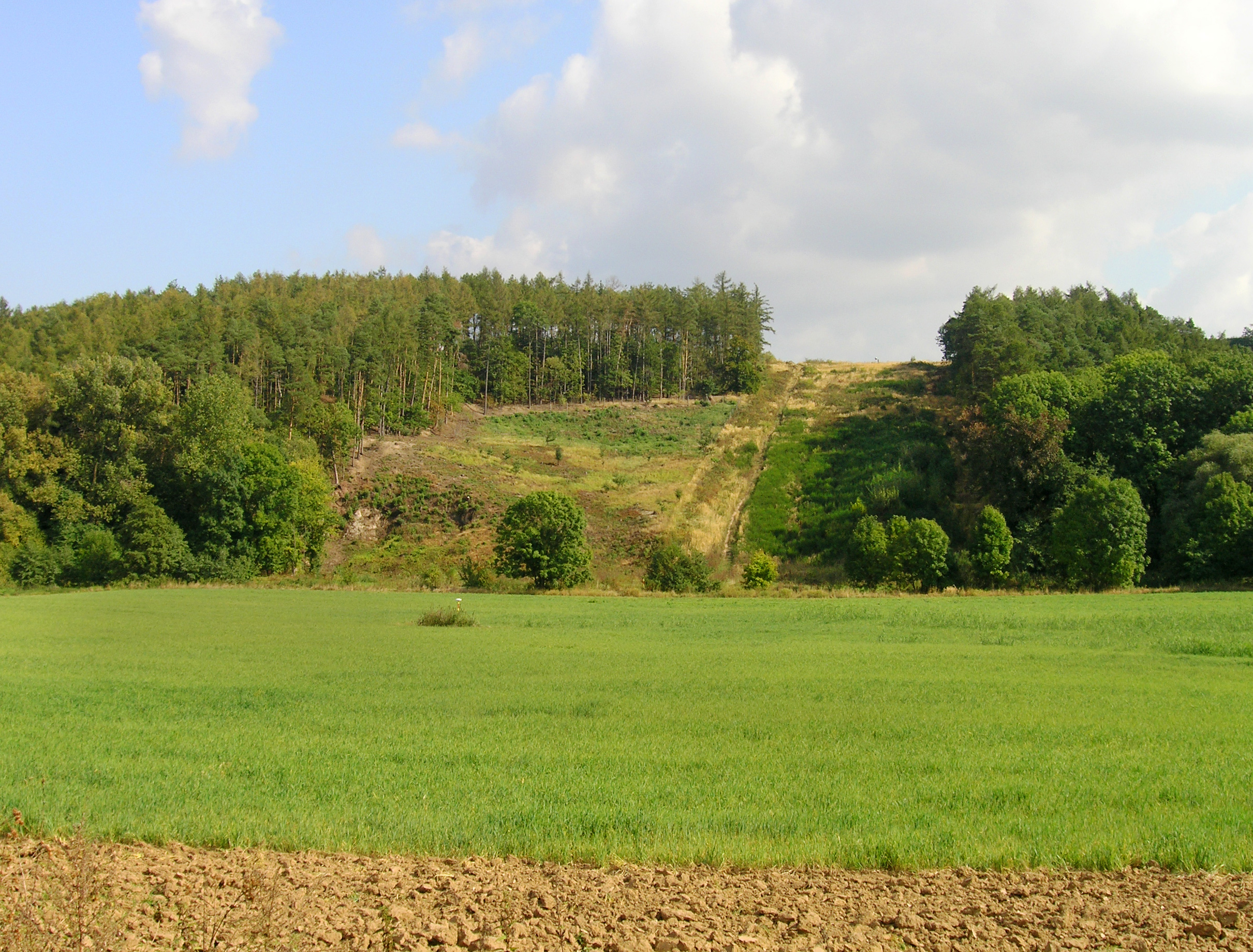 A forest between Mrzky and Tismice, Czech Republic